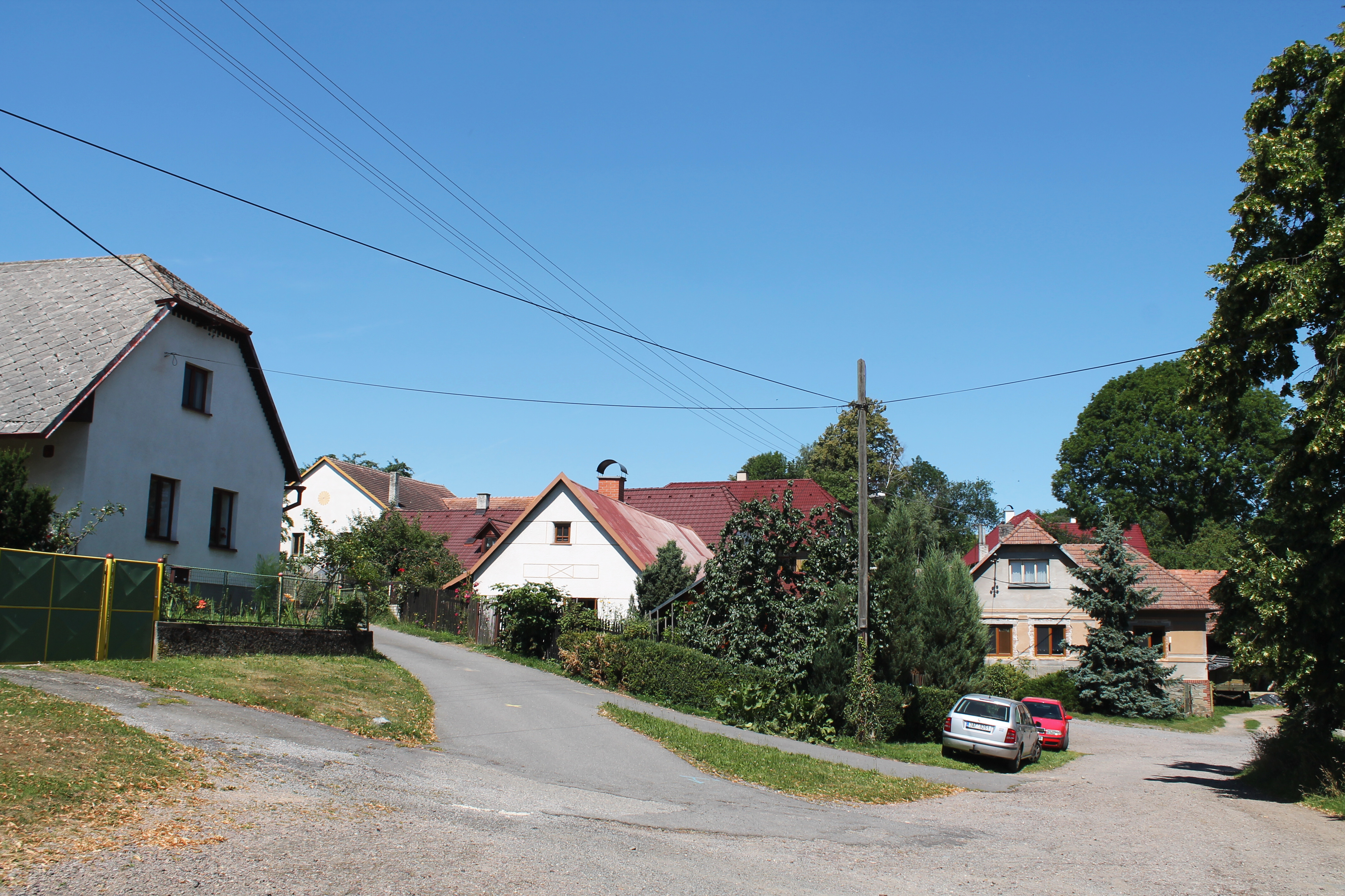 Hůrka, Bojanov, Chrudim District, Czech Republic